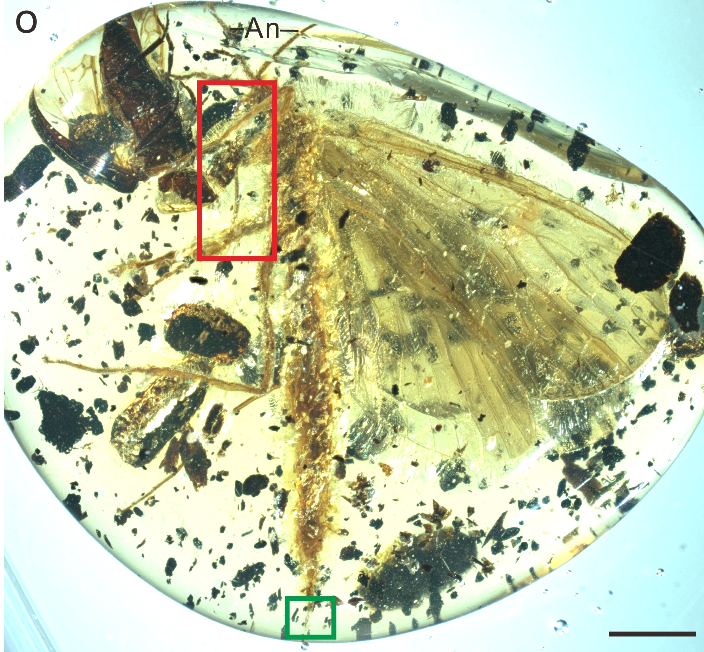 Aneuretopsychidae from Late Cretaceous Burmese amber. (O) Burmopsyche xiai; holotype, NIGP171685. Habitus in left lateral view. An, antennae; Ce1, cercus segment 1; Ce2, cercus segment 2; Fc, food channel; Ga, galea; Hy, hypopharynx; Mxp, maxillary palp. Scale bar, 2 mm